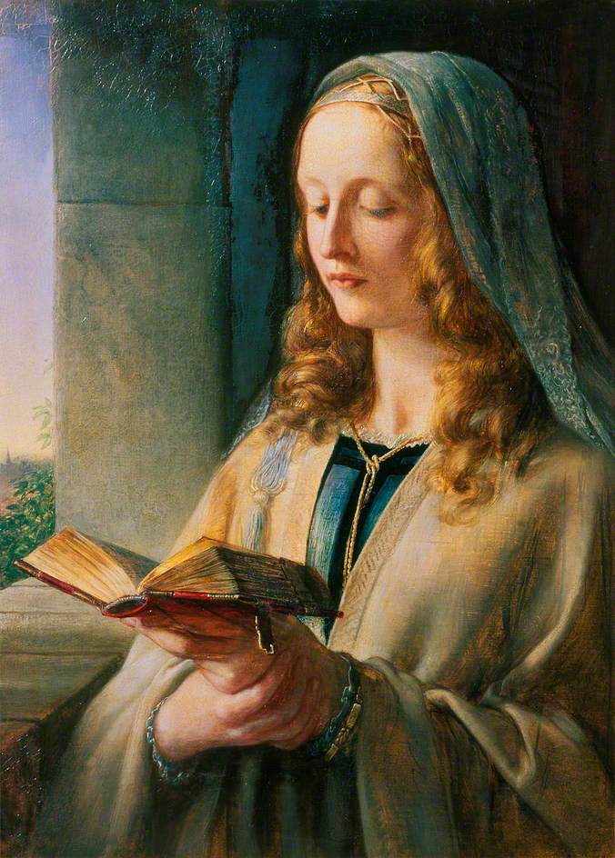 See references: The subject comes from the Book of Isaiah in the Old Testament: ‘I will greatly rejoice in the Lord…; for he hath clothed me with a robe of righteousness’. In 1847 a critic found the painting ‘beautiful and impressive in its touching simplicity’, but ‘extremely stiff and formal’.